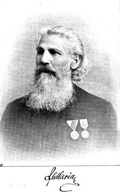 Simion Florea Marian. Image taken from Şezătoarea - Revistă pentru literatură si tradiţiuni populare, Volume 9, edited by Artur Gorovei, 1905, page 184.